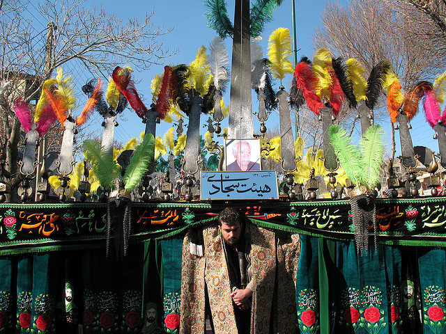 moharam ceremony in Arak